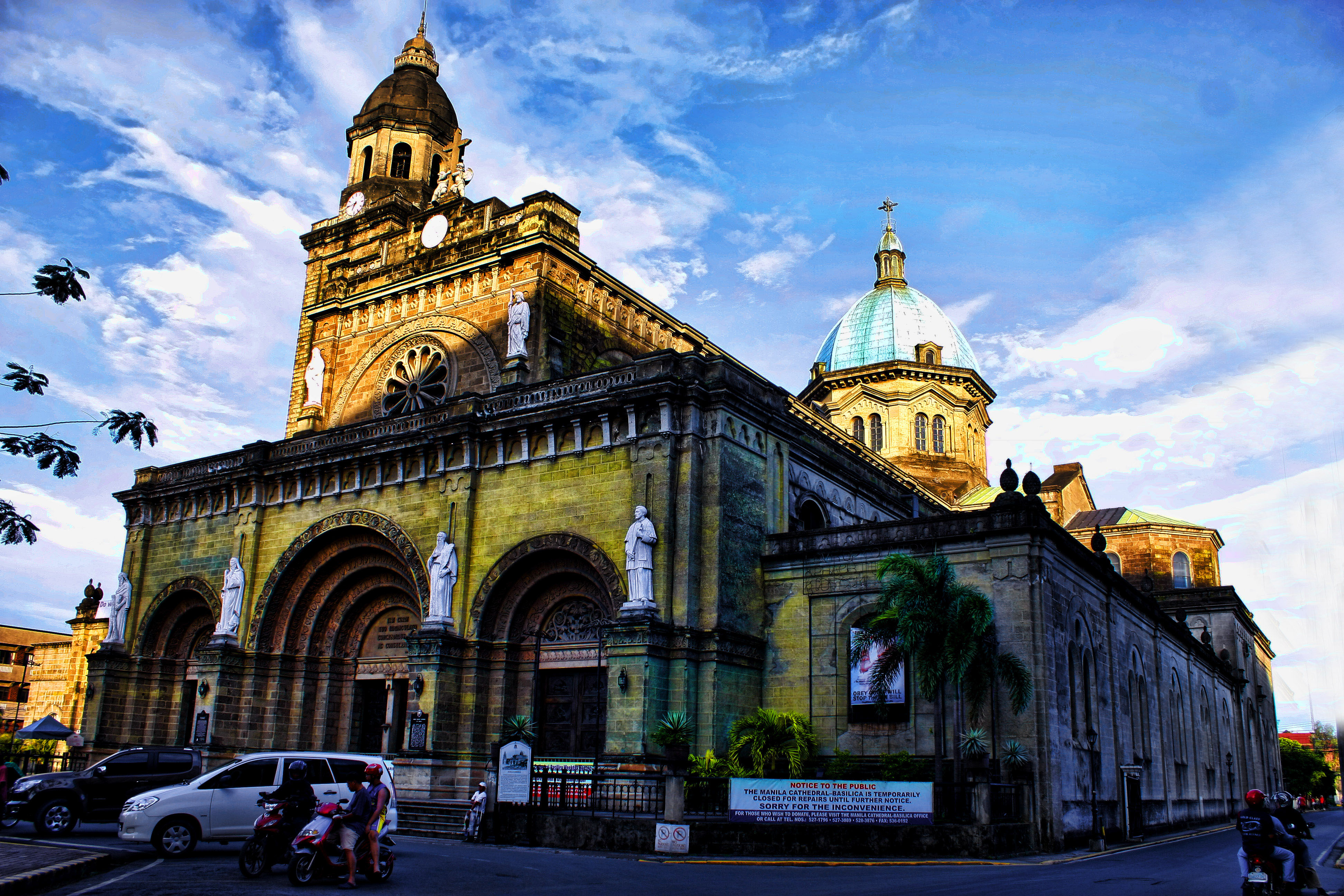 Located in the Intramuros district of Manila, it was originally a parish church owned and governed by the diocese of Mexico in 1571, until it became a separate diocese on February 6, 1579 upon the issuance of a Papal bull by Pope Gregory XIII. The cathedral serves both as the Prime Basilica of the Philippines and highest seat of the archbishop in the country. The cathedral was damaged and destroyed several times since the original cathedral was built in 1581. The eighth and current incarnation of the cathedral was completed in 1958. The Basilica has merited three Papal endorsements and two Apostolic visits from Pope Gregory XIII, Pope Paul VI and Blessed Pope John Paul II, who through the papal bull Quod Ipsum declared the cathedral a minor Basilica by his own Motu Proprio on April 27, 1981. The current-elect for the Apostolic Papal Nuncio of the Philippines is Archbishop Giuseppe Pinto. The cathedral serves as the highest seat of the Roman Catholic Archdiocese of the Philippines, while the present Archpriest of the Basilica-Cathedral is Archbishop Luis Antonio Tagle, the de facto Primate of the Philippines.